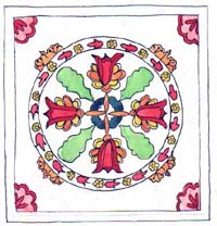 Tulipkazetta in a village church from Hungary. Szaniszlo Berczi.